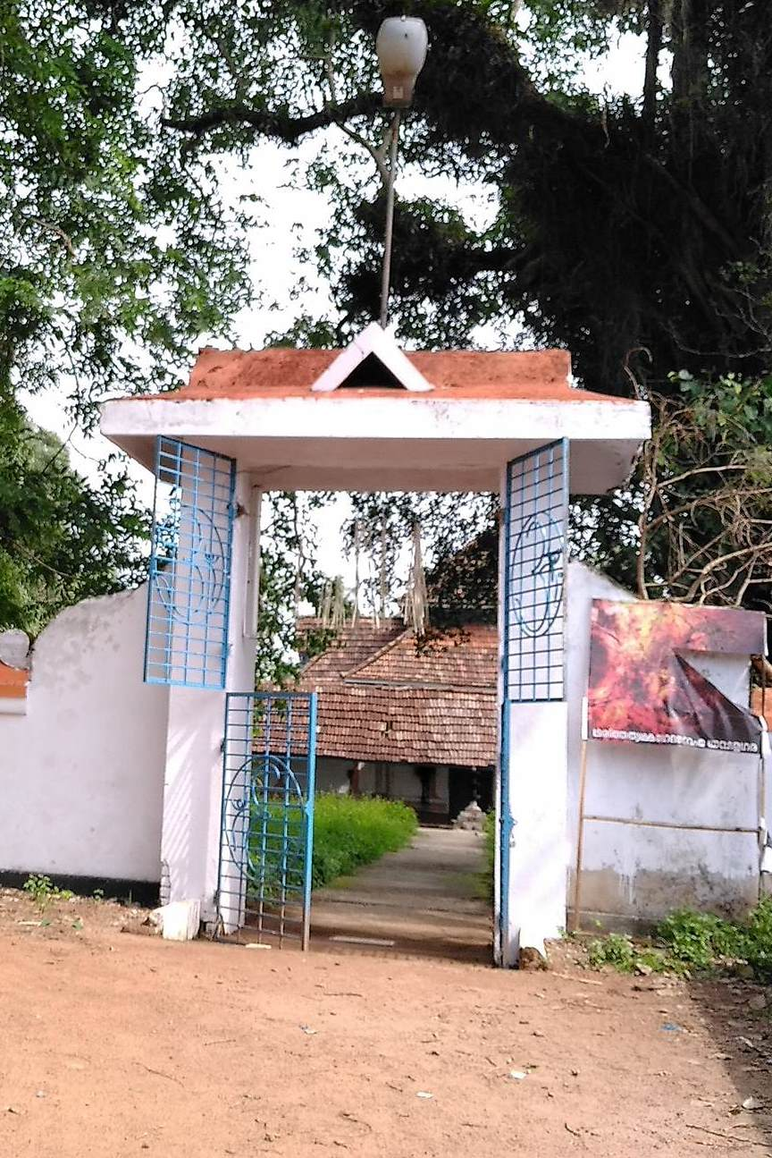 Velappaya Temple Gate